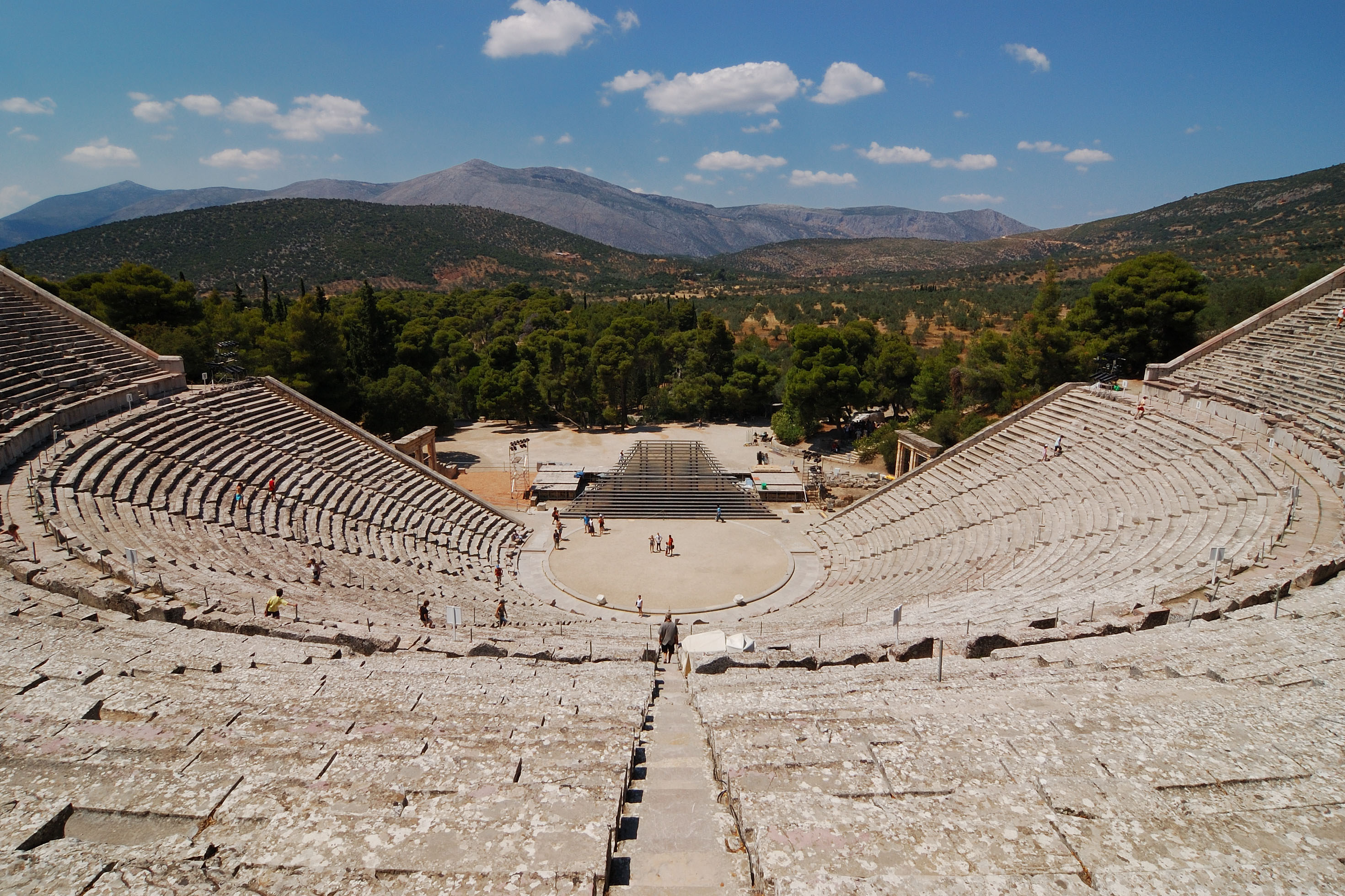 View from the top